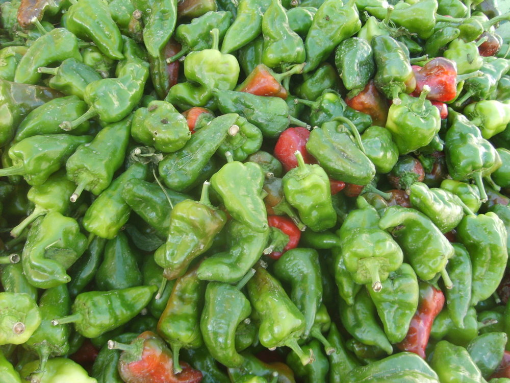 Bahovo Pepper, Almopia, Greece